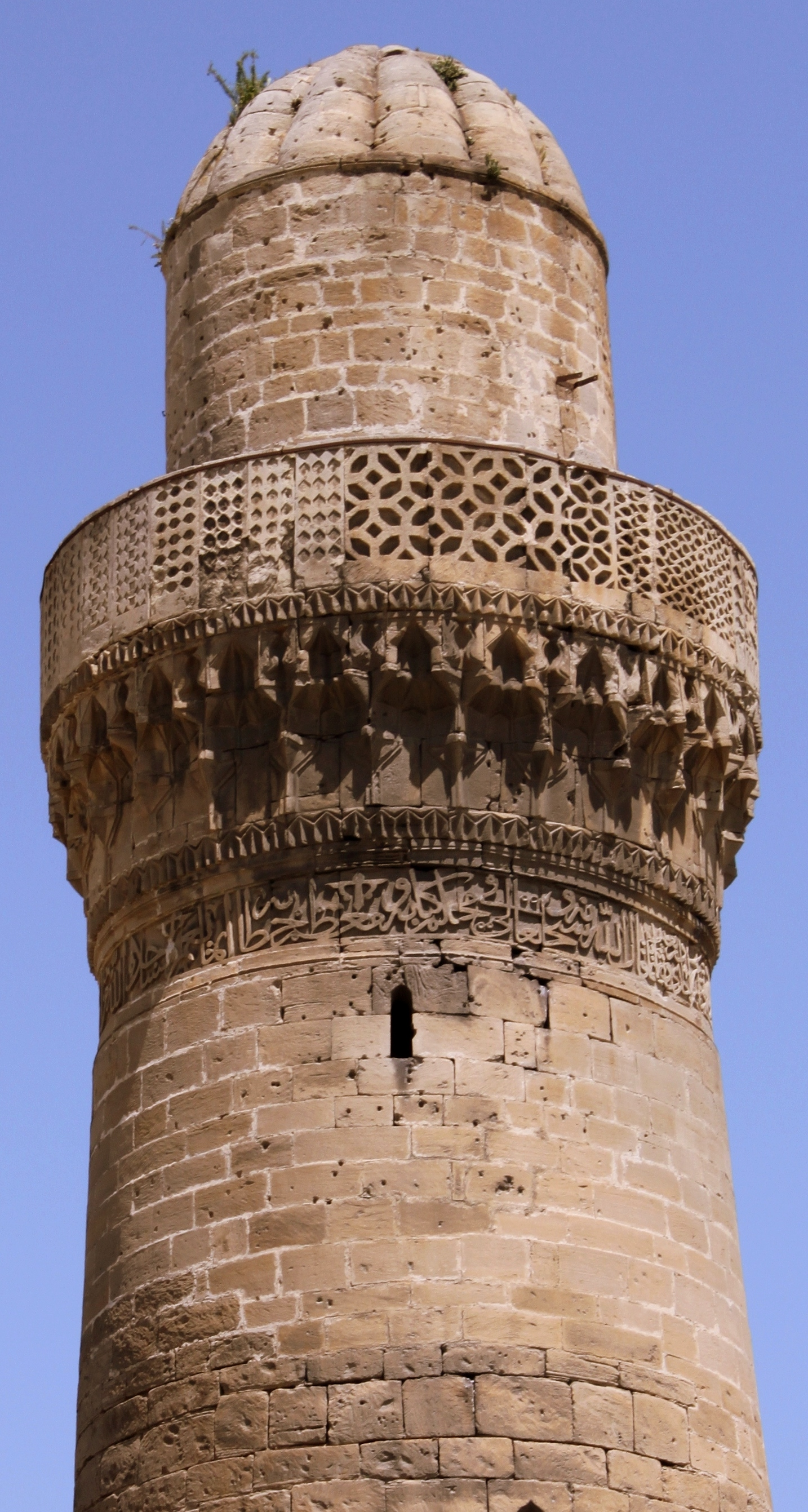 Cuma mosque